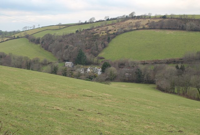 Coombe Farm. As its name might suggest, set in the valley of the Coney Gut, particularly deep here, and seen from the same spot as 1757713.